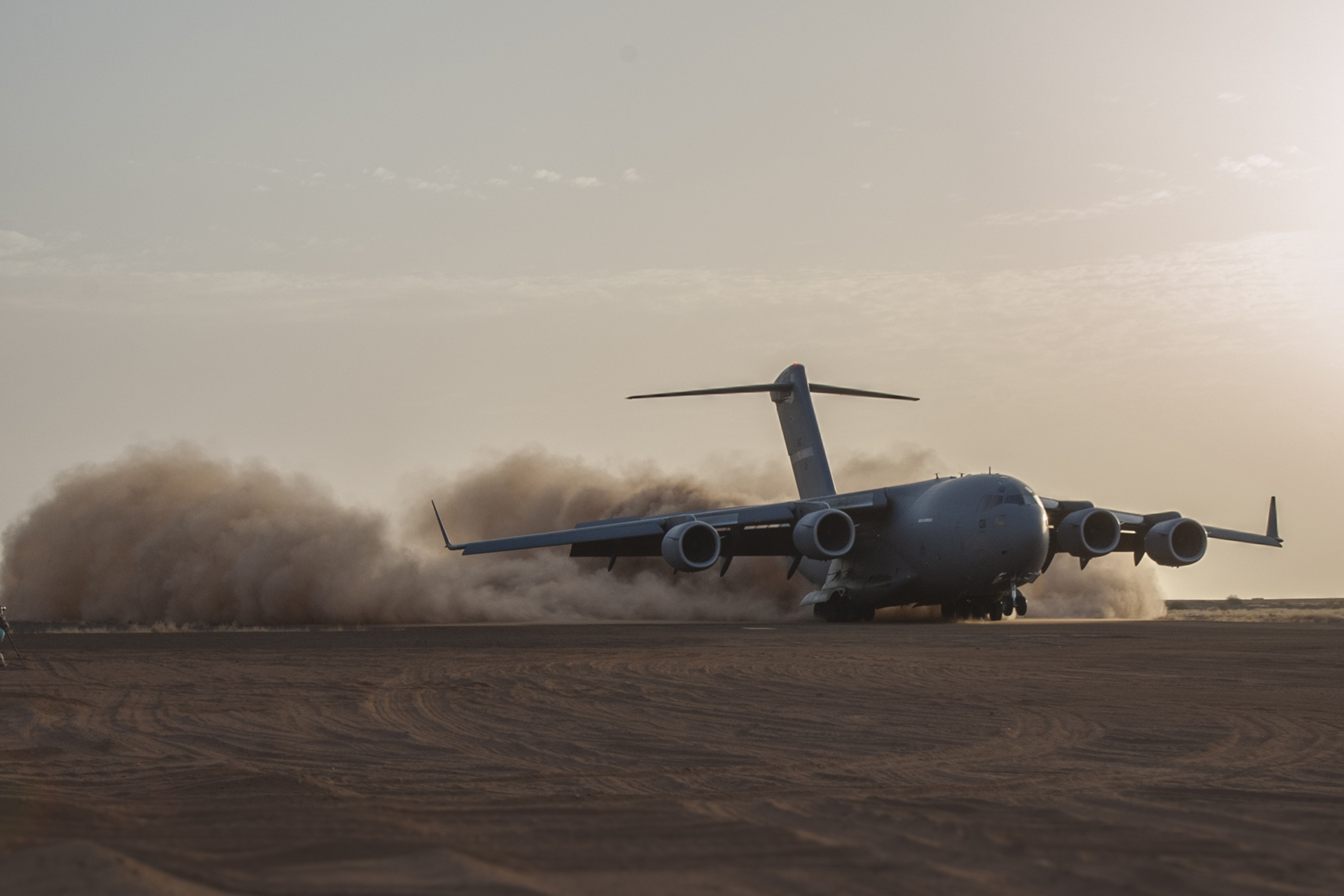 Boeing C-17 landing at Gao Airport, Mali